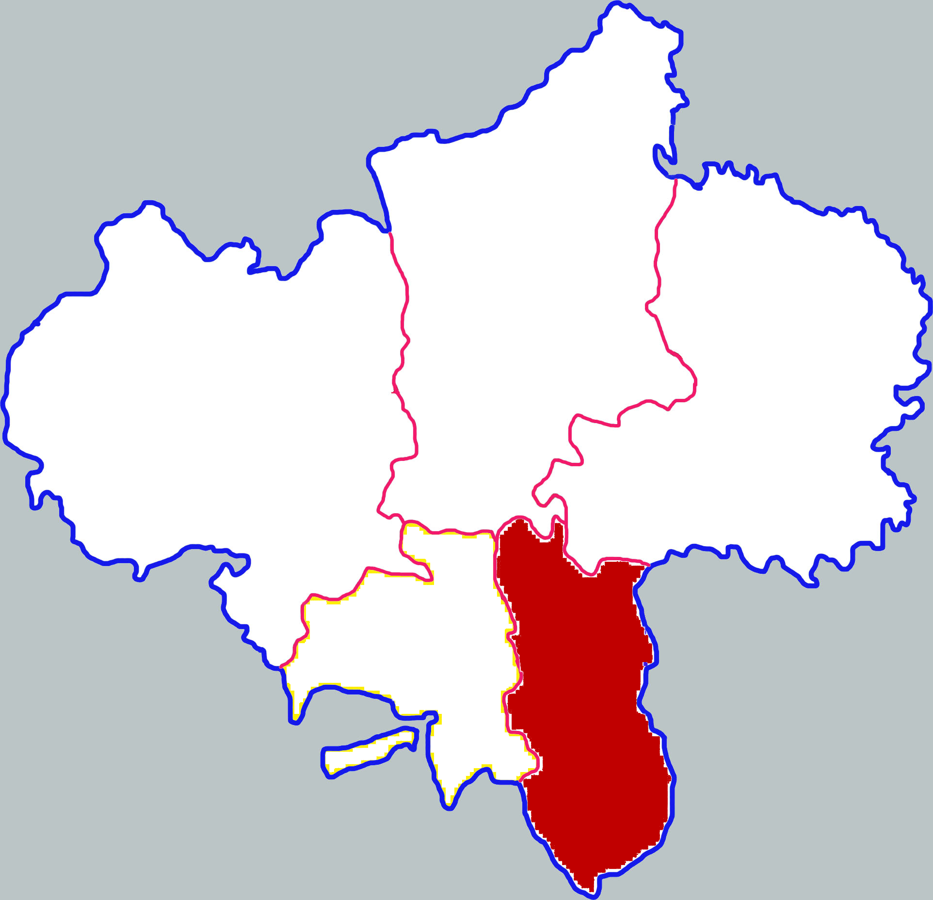 Location of Jingyuan county in Guyuan city, China